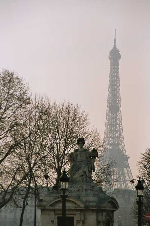 Personification of the city of Bordeaux at Place de la Concorde with the Eiffel Tower in the background.